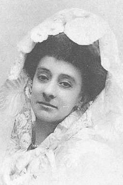 condesa